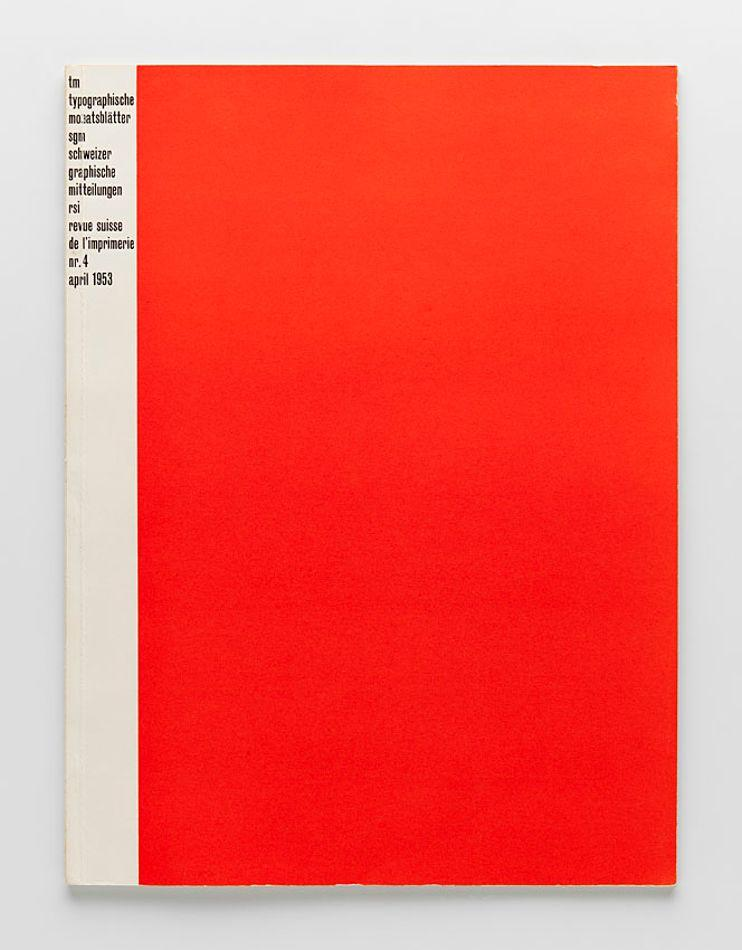 Cover of Swiss typographic magazine "Typographische Monatsblätter", issue 04.1953 (April 1953). Special issue dedicated to proofing in the print industry. Cover design by Emil Ruder.